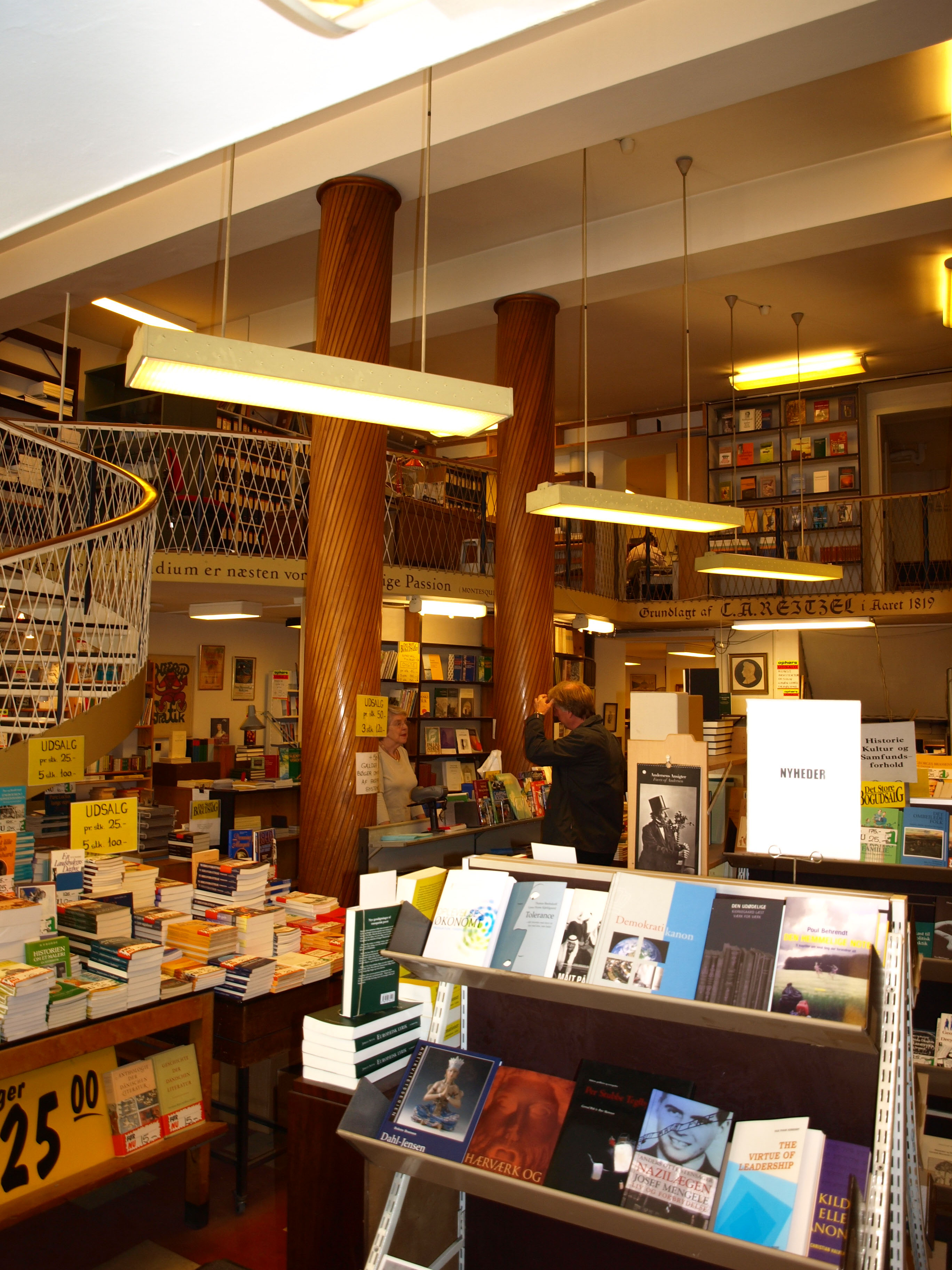 Interiør fra C.A. Reitzels boghandel på Nørregade i København.